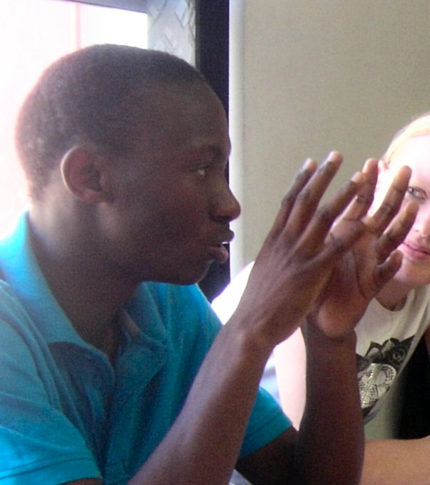 Maxwell Dlamini, Manzini Swaziland, September 2010.